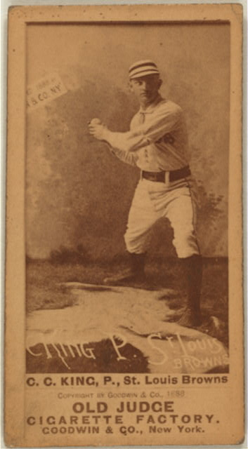 Charles Fredrick "Silver" King, 19th century baseball player.